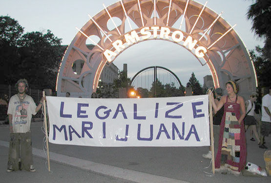 "It really puzzles me to see marijuana connected with narcotics, dope and all that crap. It's a thousand times better than whiskey. It's an assistant, a friend." - Louis Armstrong 2001 The Space Odyssey Marijuana March May 5, 2001 New Orleans